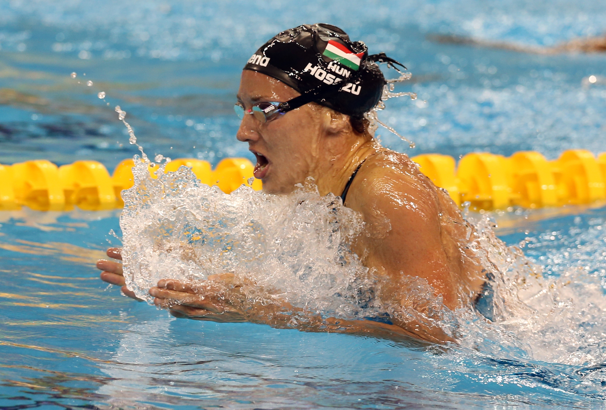 Hungarian swimmer Katinka Hosszú in action during the Doha leg of the 2013 FINA Swimming World Cup.